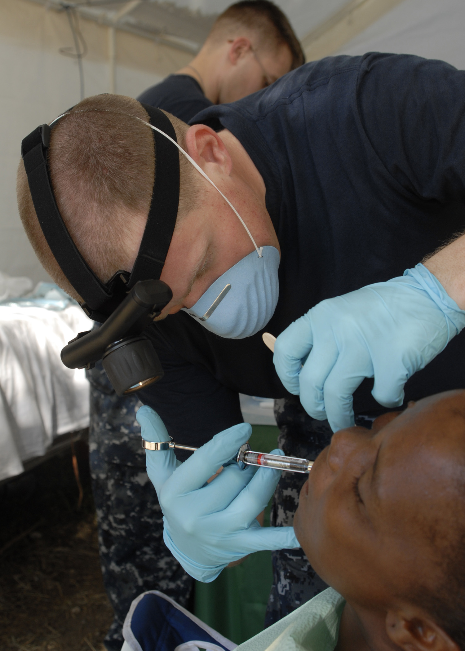 LEOGAN, Haiti (Feb. 3, 2010) Lt. Joseph Reardon, a dental officer assigned to the amphibious dock landing ship USS Carter Hall (LSD 50), administers anesthesia to a patient before extracting a tooth at the Hospital Cardinal de Legar in Leogane, Haiti. Carter Hall is conducting humanitarian and disaster relief operations as part of Operation Unified Response after a 7.0 magnitude earthquake caused severe damage in and around Port-au-Prince, Haiti Jan. 12. (U.S. Navy photo by Mass Communication Specialist 1st Class Hendrick Dickson/Released)